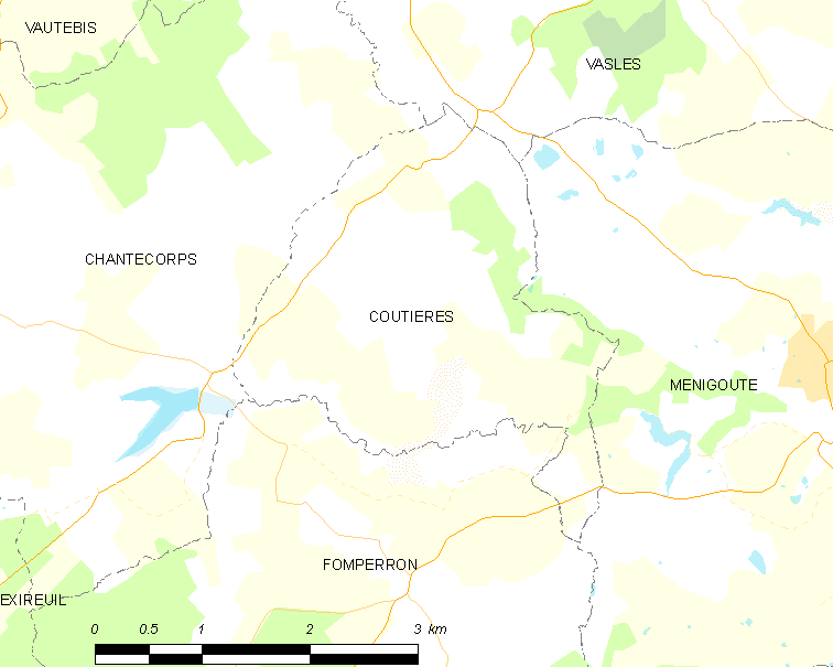 Map of French municipality Coutières